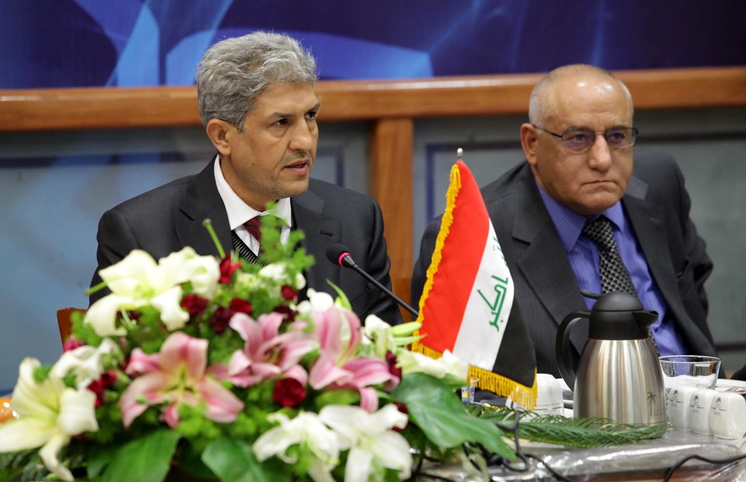 Mayor of Baghdad and Mashhad - meeting